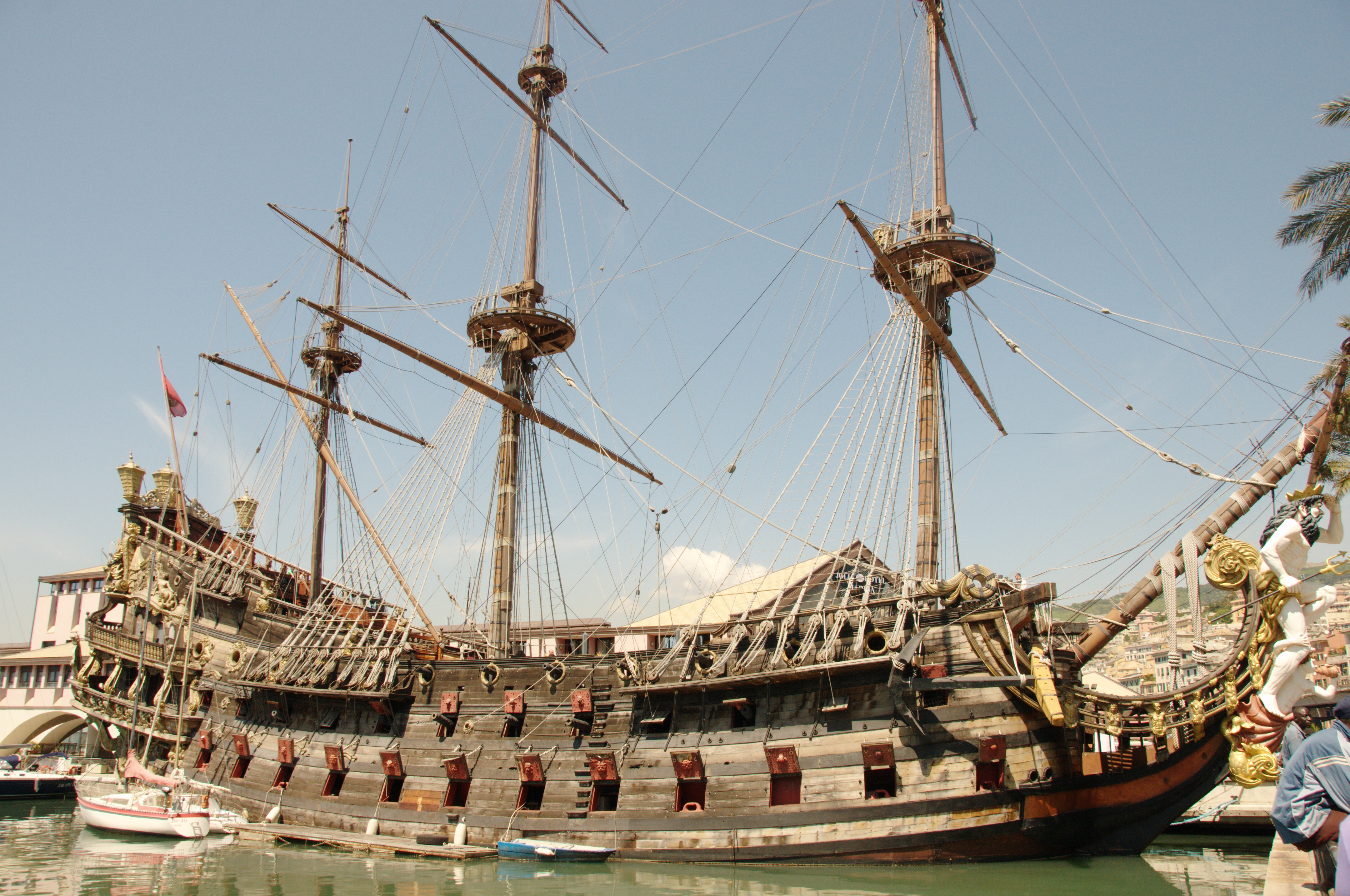 Boat used for the movie Pirates from Roman Polanski in Genova, Italy